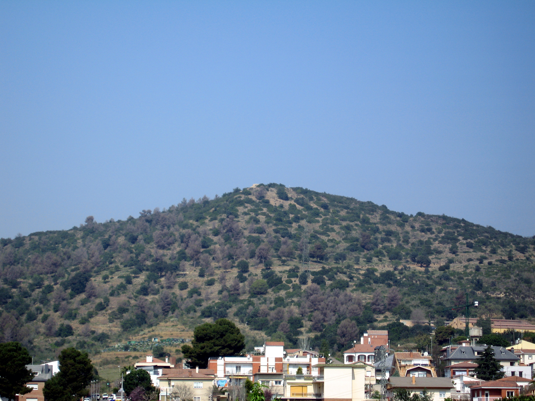 The “Penya del Moro” in the Serra de Collserola (Sant Just Desvern, Catalonia).